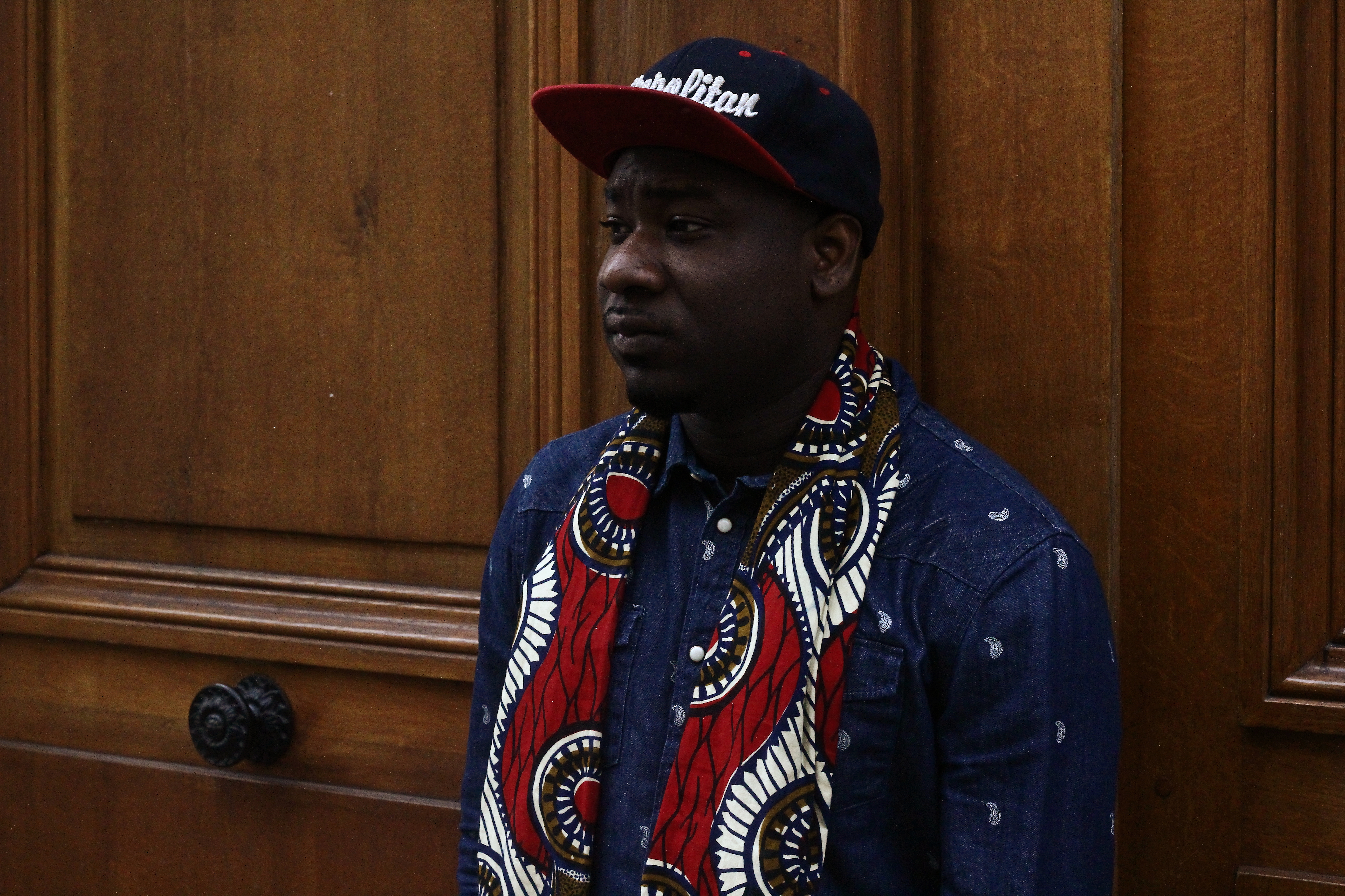 Blitz the Ambassador, le 19 mars 2014, Paris